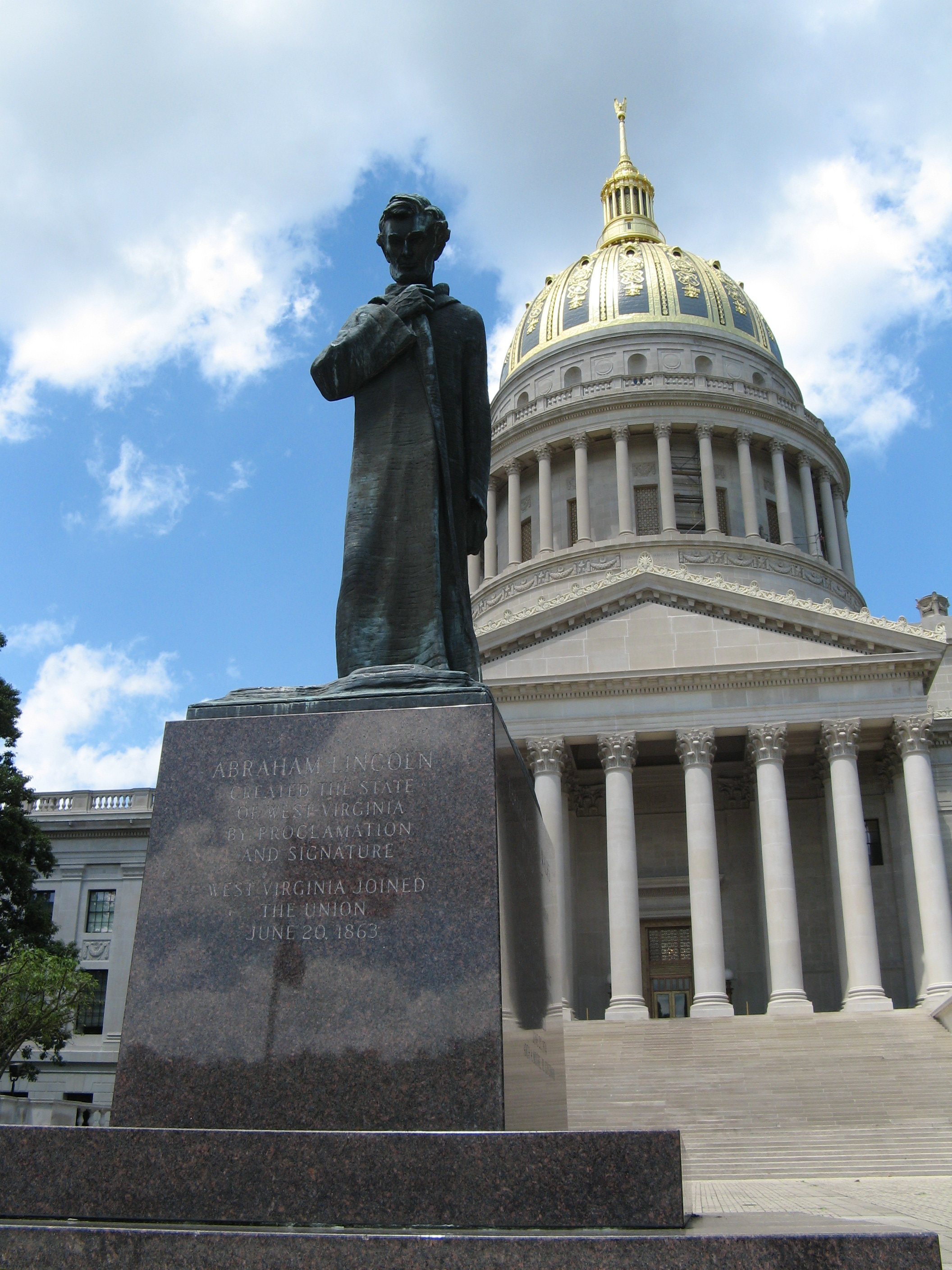 "Abraham Lincoln Walks at Midnight" Statue on the grounds of the West Virginia State Capitol.